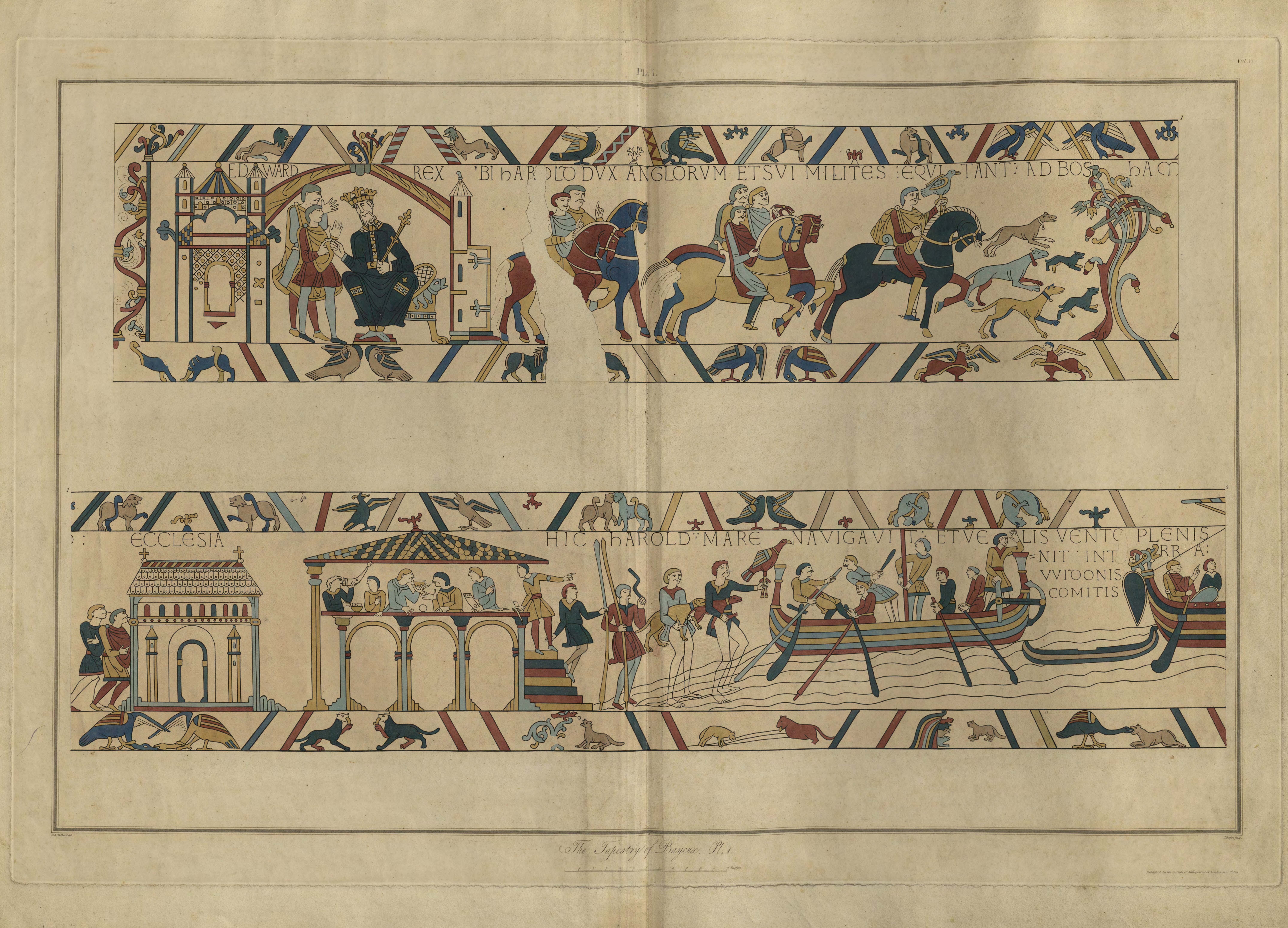 Engraving from a set of the complete Bayeux tapestry, published in 1823 Latin text of captions: EDWARD REX UBI HAROLD DUX ANGLORUM ET SUI MILITES EQUITANT AD BOSHAM ECCLESIA HIC HAROLD MARE NAVIGAVIT ET VELIS VENTO PLENIS VENIT IN TERRA WIDONIS COMITIS English translation of caption: King Edward Where Harold, duke of the English, and his knights ride to Bosham Church Here Harold sailed by sea and with sails filled with wind came to the land of Count Wido